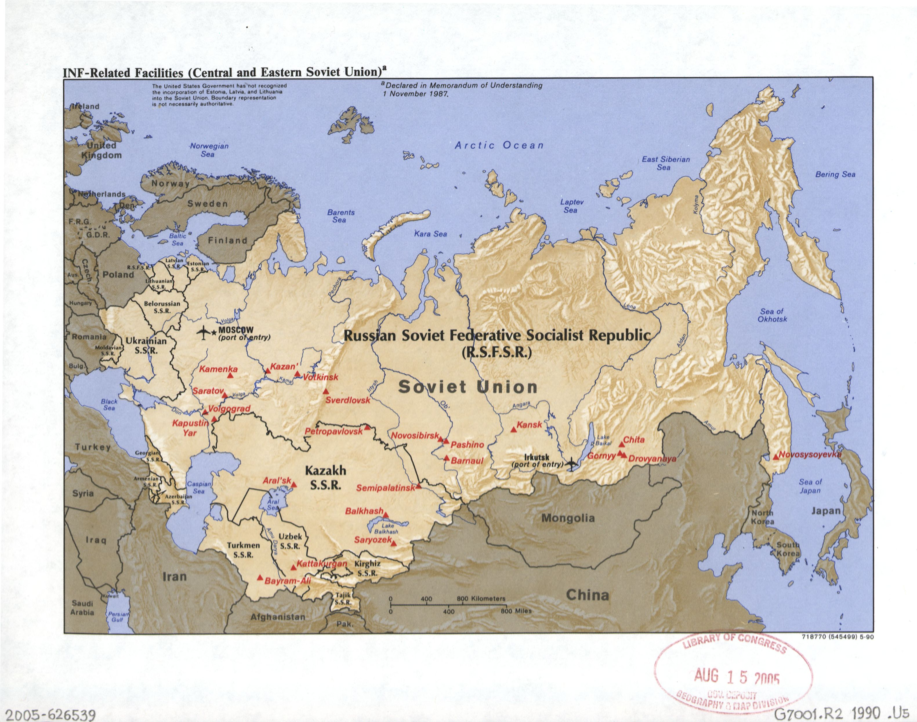 INF-Related Facilities in the USSR. INF-Treaty USA-USSR. CIA map Scale ca. 1:38,000,000.